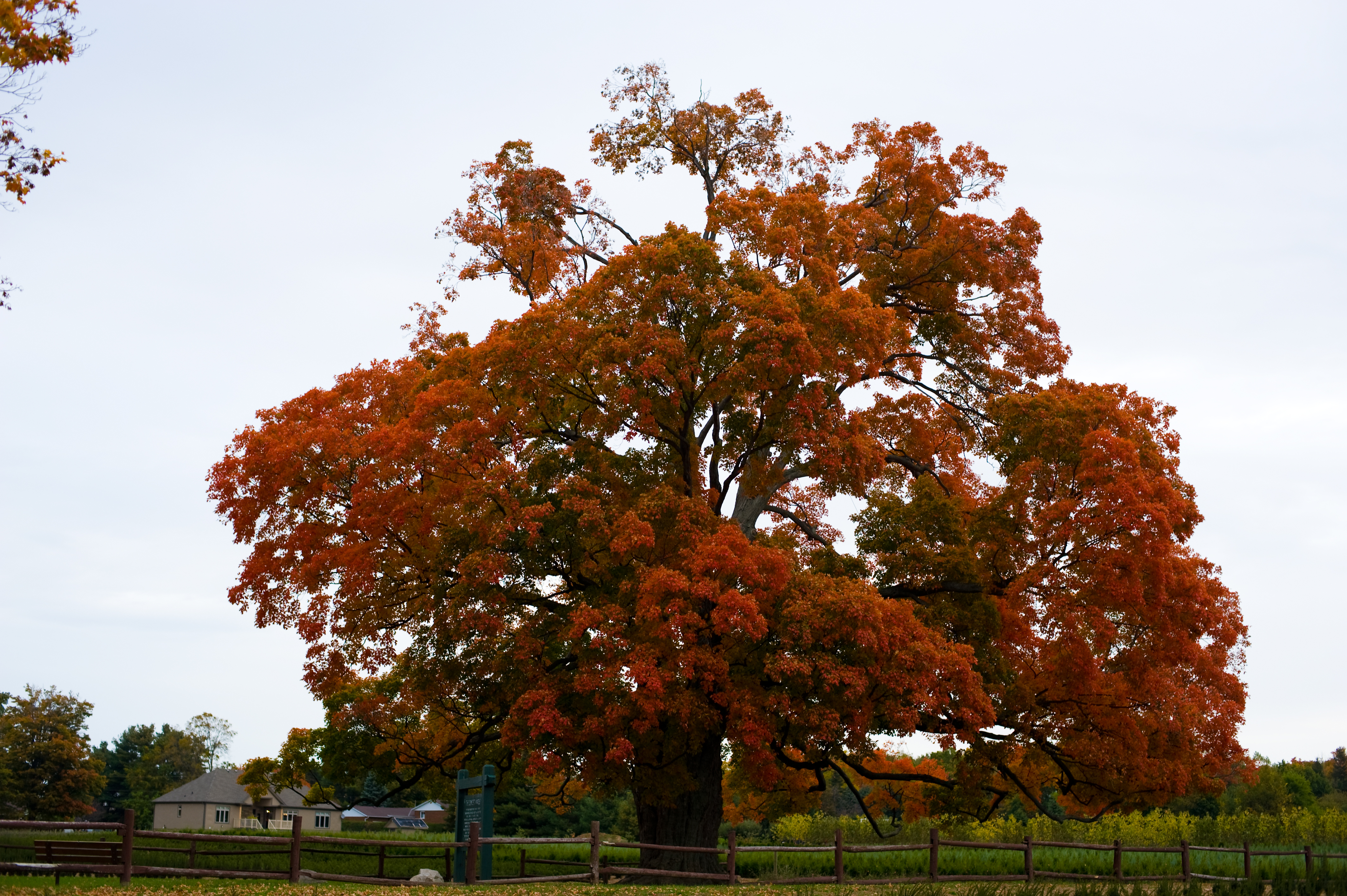 Taken on October 15, 2008 by Miklos Bacso.